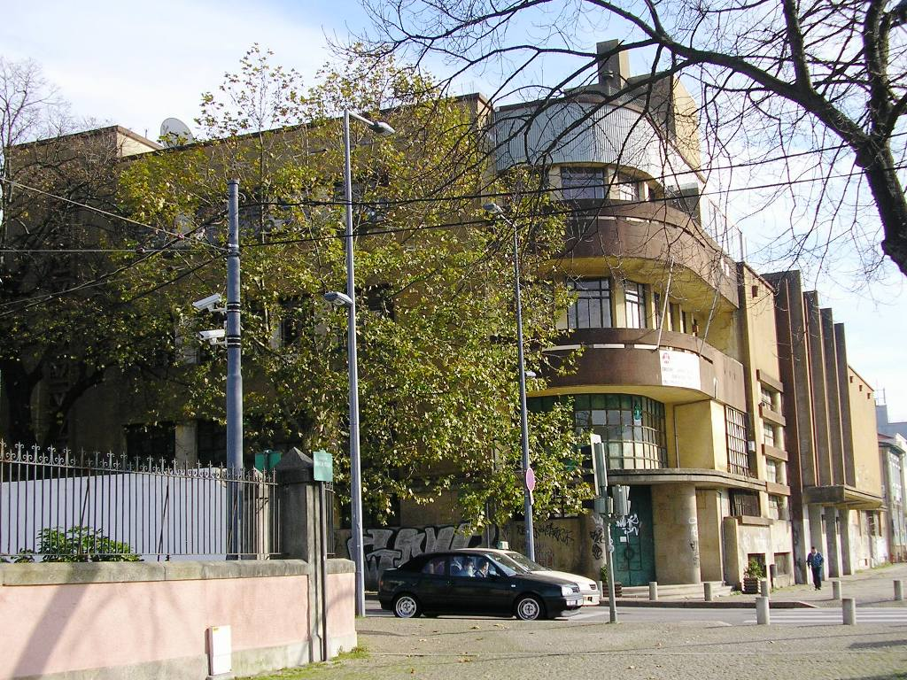 Old industrial fish freezer house in Porto, Portugal.